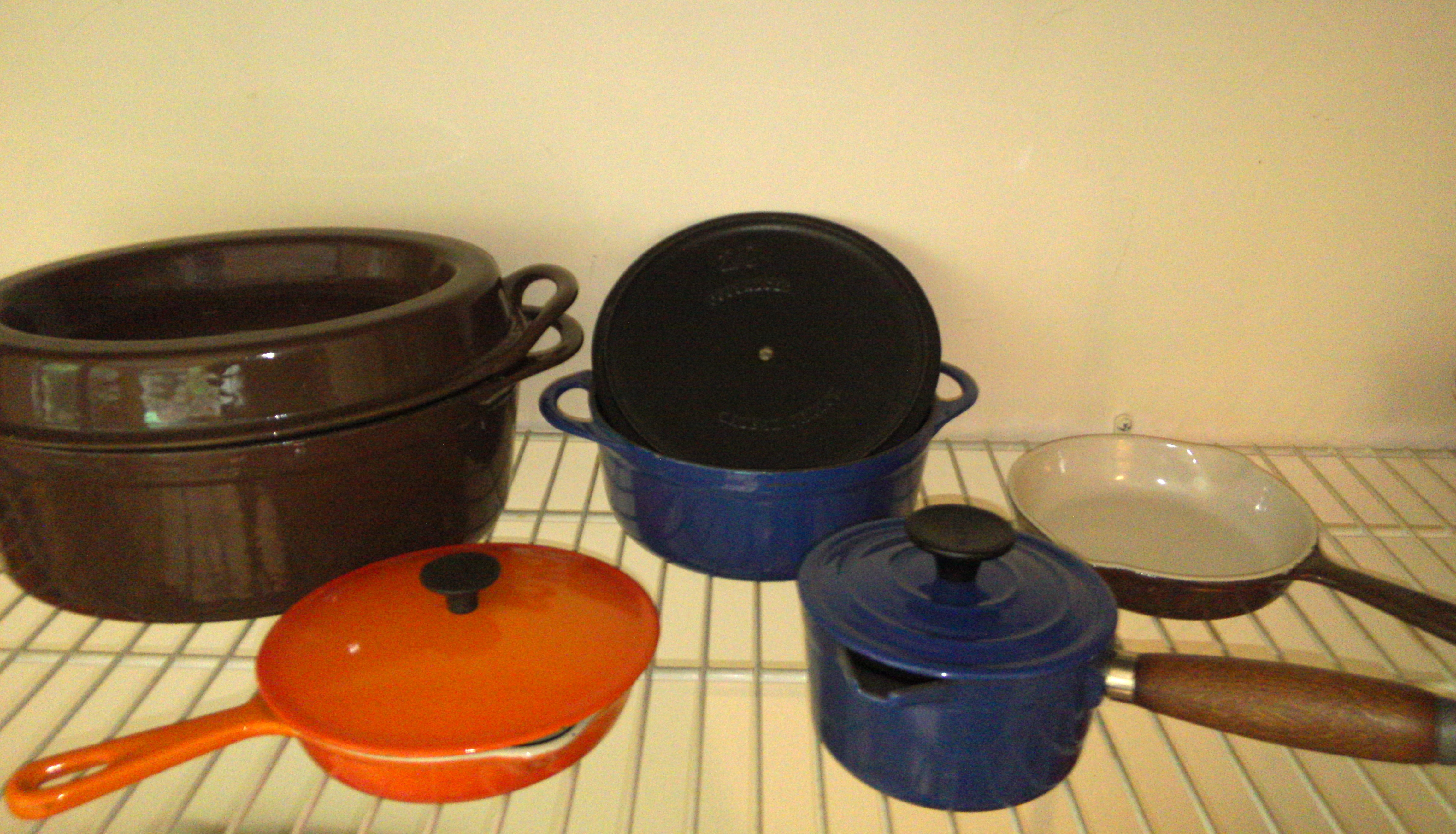 Cousances enameled cast iron cookware made in France. The company was founded in the 16th century.